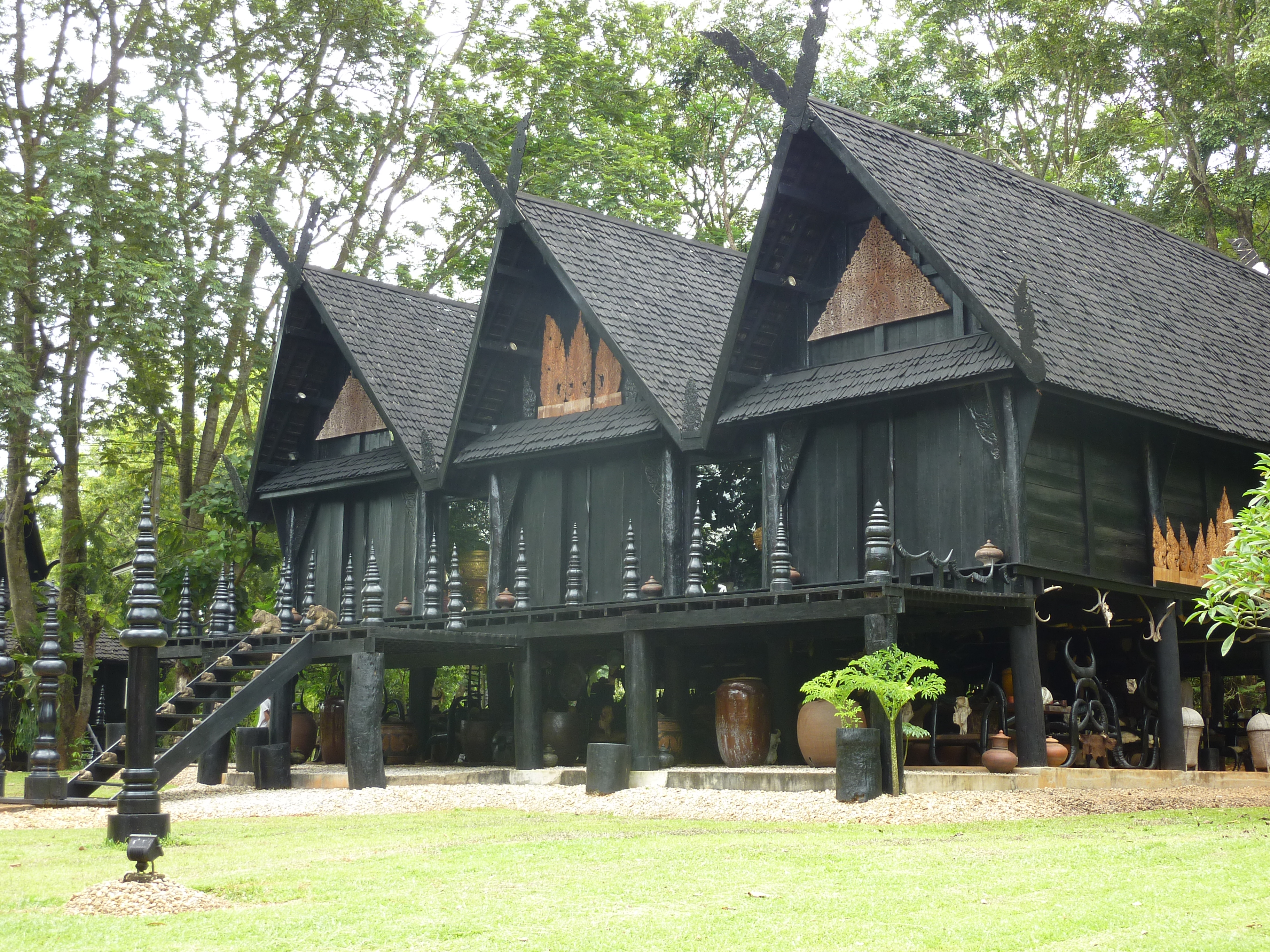 01 Triple Building, Black House, Chiang Rai